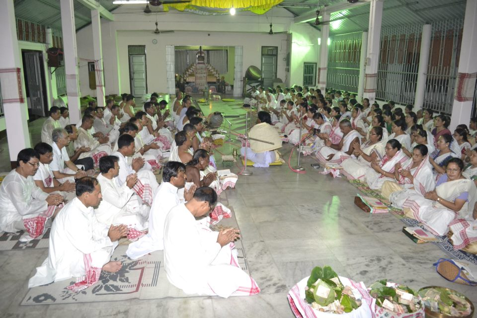 View inside a Namghar in Janmastami